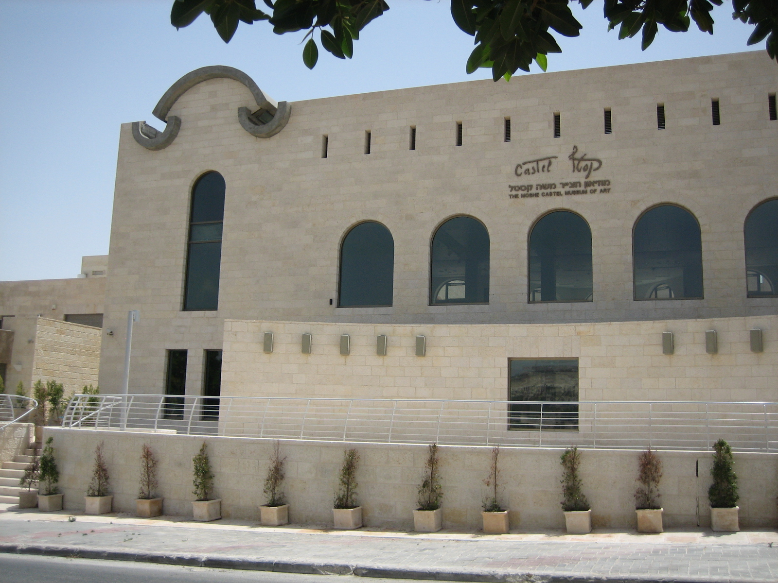 The Moshe Castel Museum of Art, 1 Ha-Museon street in Ma'ale-Adumim